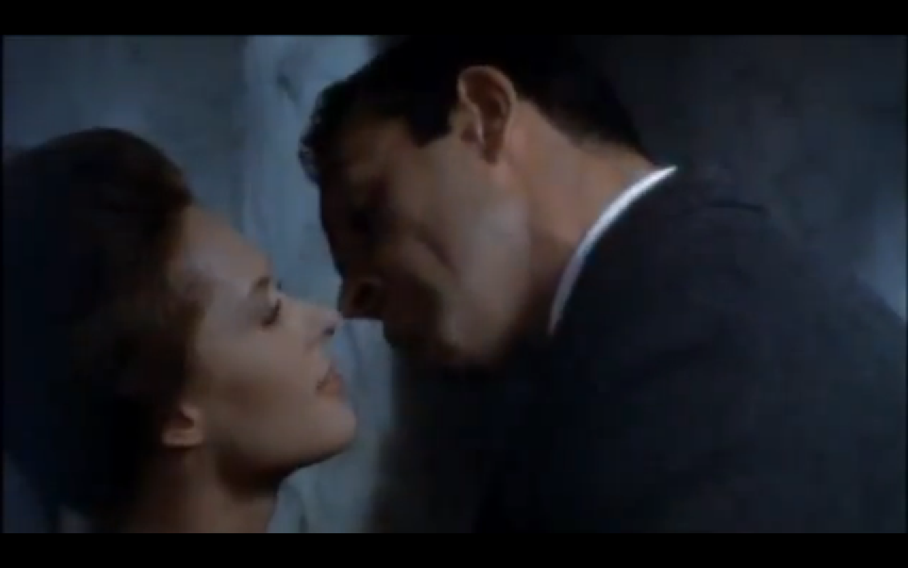 Tippi Hedren and Sean Connery in Hitchcock's "Marnie" trailer.